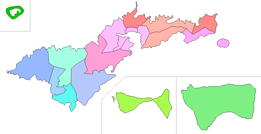 Districts of the American Samoa Fono